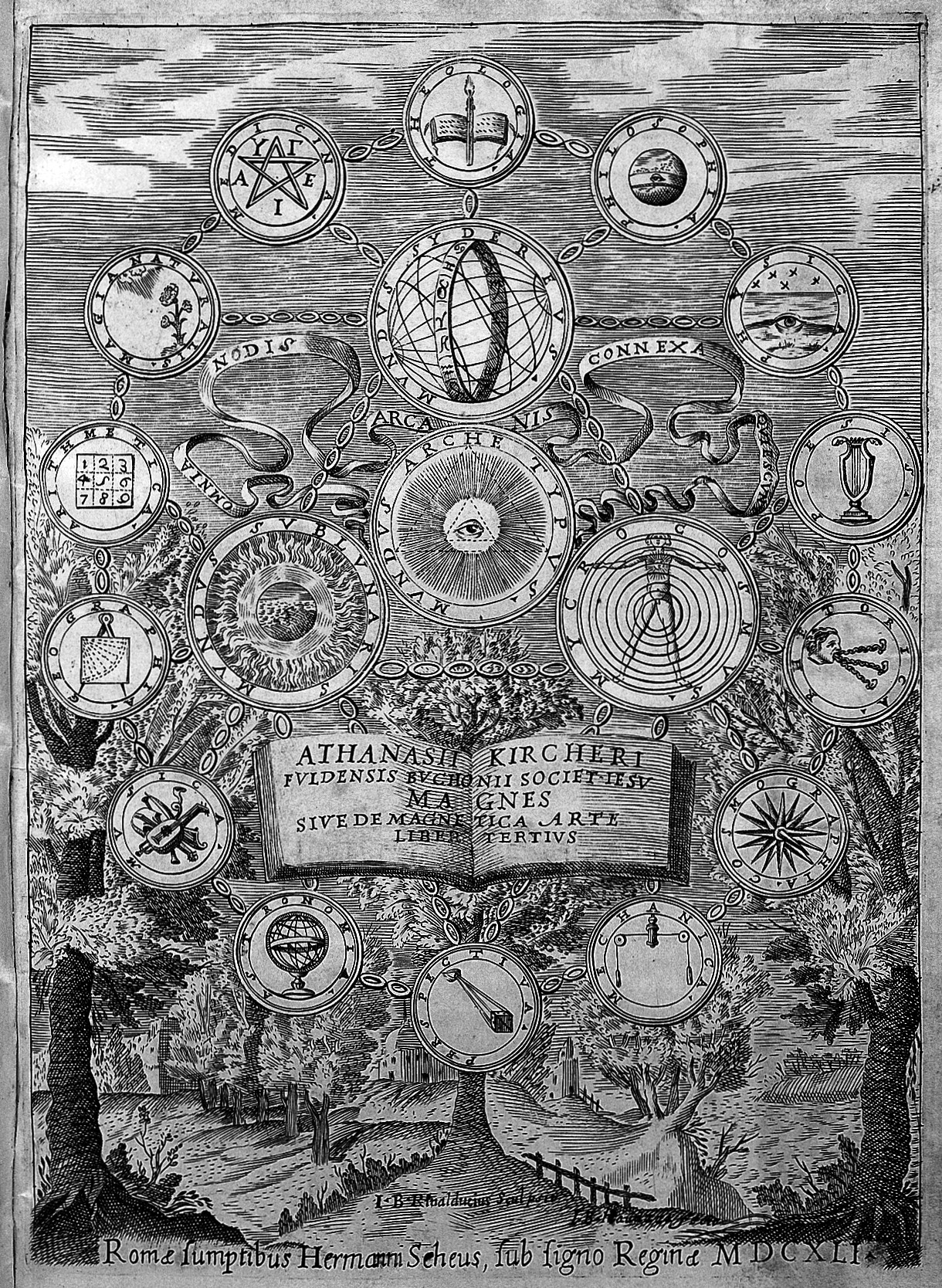 KIRCHER, Athanasius (1602-1680) A. Kircher, Magnes siue de arte magnetica opvs tripartitvm. Quo praeterqvam qvod vniversa magnetis natura...... Romae: Ex typographia Ludouici Grignani, MDCLXI [1641] Frontispiece. Rare Books Keywords: MAGNETISM; epb; athanasius kircher; magnes sive de arte magnetica